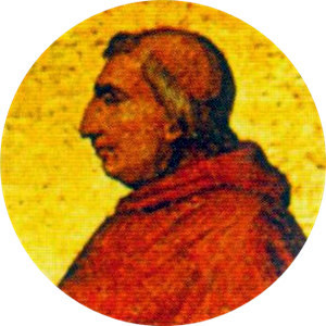 Portait of Pope Innocent VIII in the Basilica of Saint Paul Outside the Walls, Rome